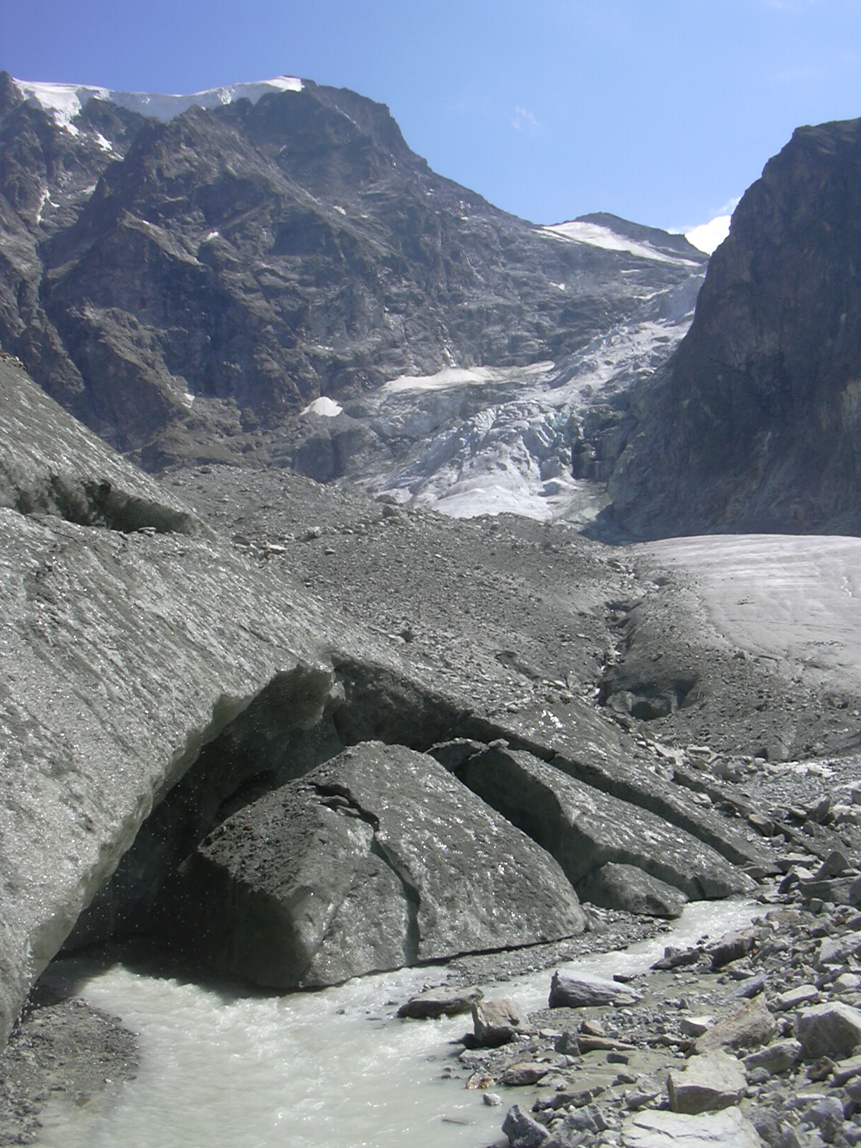 Lower Arolla Glacier, Borgne d'Arolla source, Valais/Switzerland